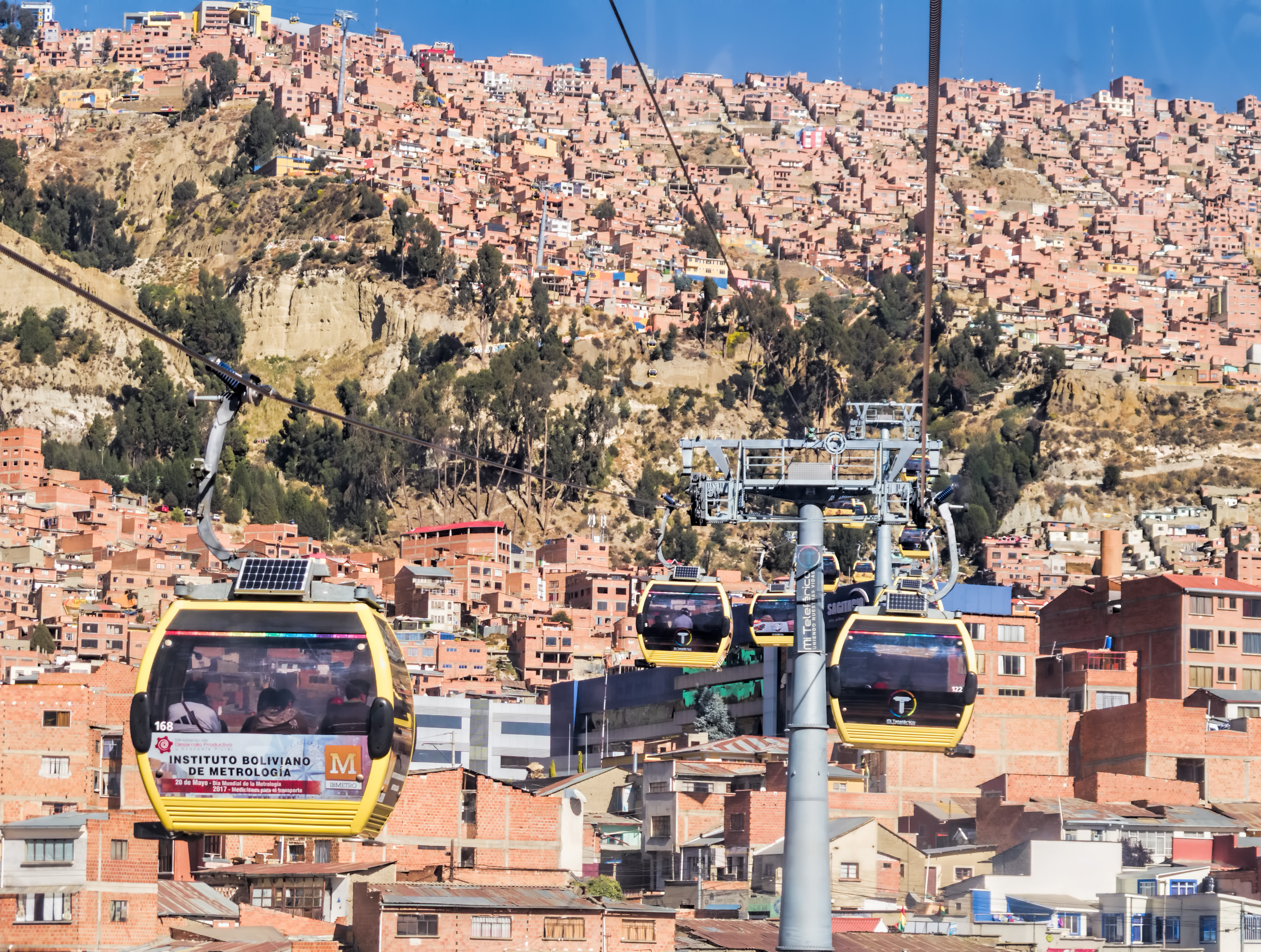 We transfer to the Yellow Line which will bring us to El Alto, specifically to the yellow building at the top left which is the Mirador/Ciudad Satélite (Aymara name: Qhana Pata) Station where the Yellow Line terminates. [Heading here towards Buenos Aires (Aymara name: Quta Uma) Station where the turn to the left gets made.] The cable car transit system, known as Mi Teleférico (My Cable Car), opened in 2014 with three lines, Red, Yellow, and Green, the colors of the Bolivian flag. Two more lines opened in 2017 with an additional six lines planned. It is the longest aerial cable car system in the world La Paz (elev.3,240m/11,942ft) was founded in the Andes by the Spaniards in 1548 in a canyon created by the Choqueyapu River. The administrative capital of Bolivia shifted to La Paz in 1898 while Sucre remained the constitutional and judiciary capital. On the western rim of the canyon on the Altiplano (High Plain) is the satellite city of El Alto (The Heights; elev. 4,150m/13,615ft) where there is flat land for the airport. The area was uninhabited until 1903 when the railroad reached the canyon rim and railway workers settled there to staff the railyards and depots. The district was politically separated from La Paz in 1985 and then formally incorporated as a city in 1987. Today El Alto is the second-largest city in Bolivia (after Santa Cruz) and the highest major metropolis in the world. The population is mostly indigenous, primarily Aymara. On Google Earth: Buenos Aires Station (Yellow Line) 16°30'55.55"S, 68° 8'38.91"W Mirador/Ciudad Satélite Station (Yellow Line terminus) 16°31'5.97"S, 68° 9'0.02"W